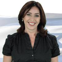 Member of Knesset, Miri Regev.